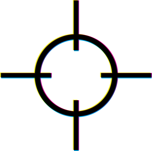 A representation of a printer's registration mark printed in registration black showing a slight offset of different color plates.